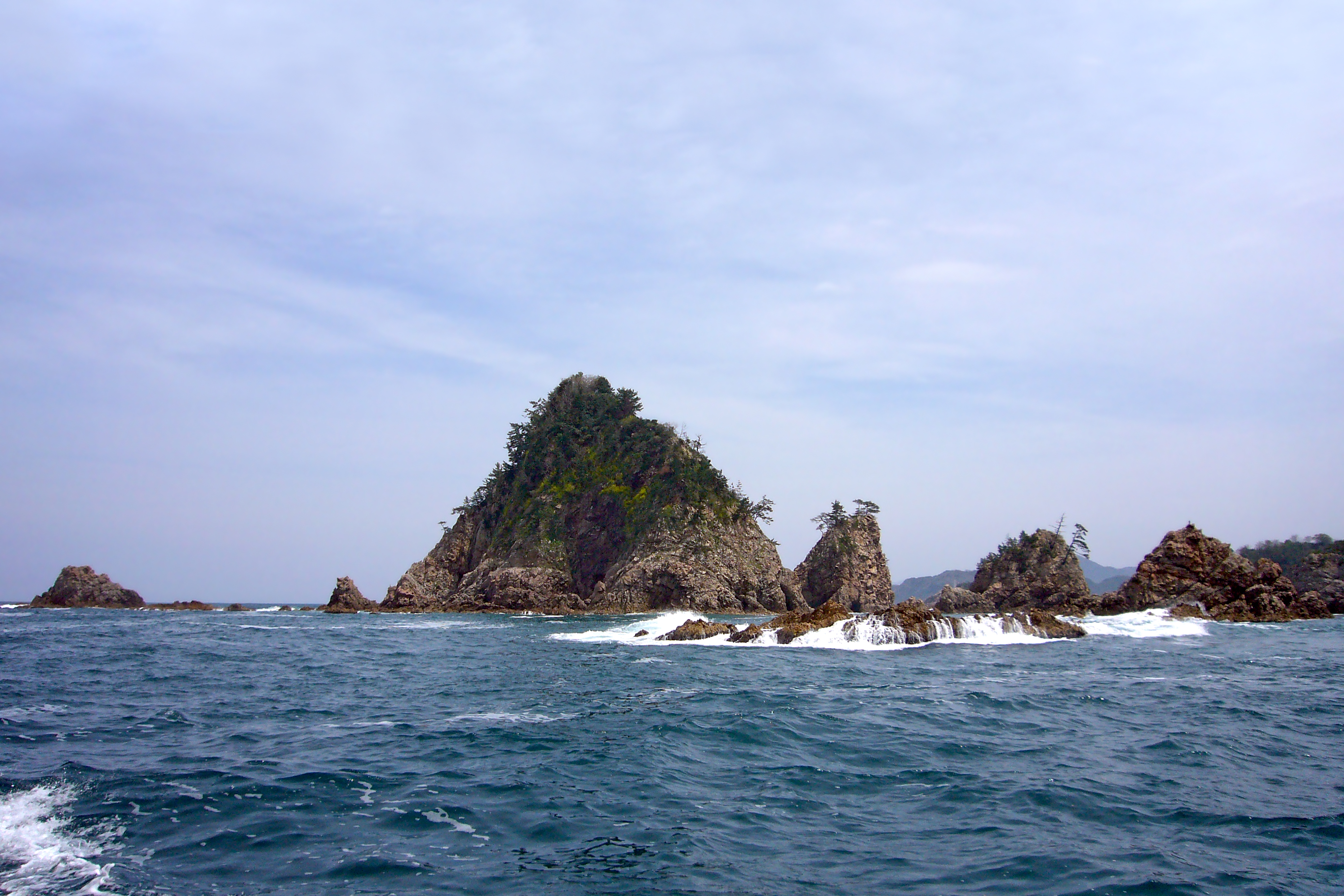 Uradome Coast in Iwami, Tottori prefecture, Japan